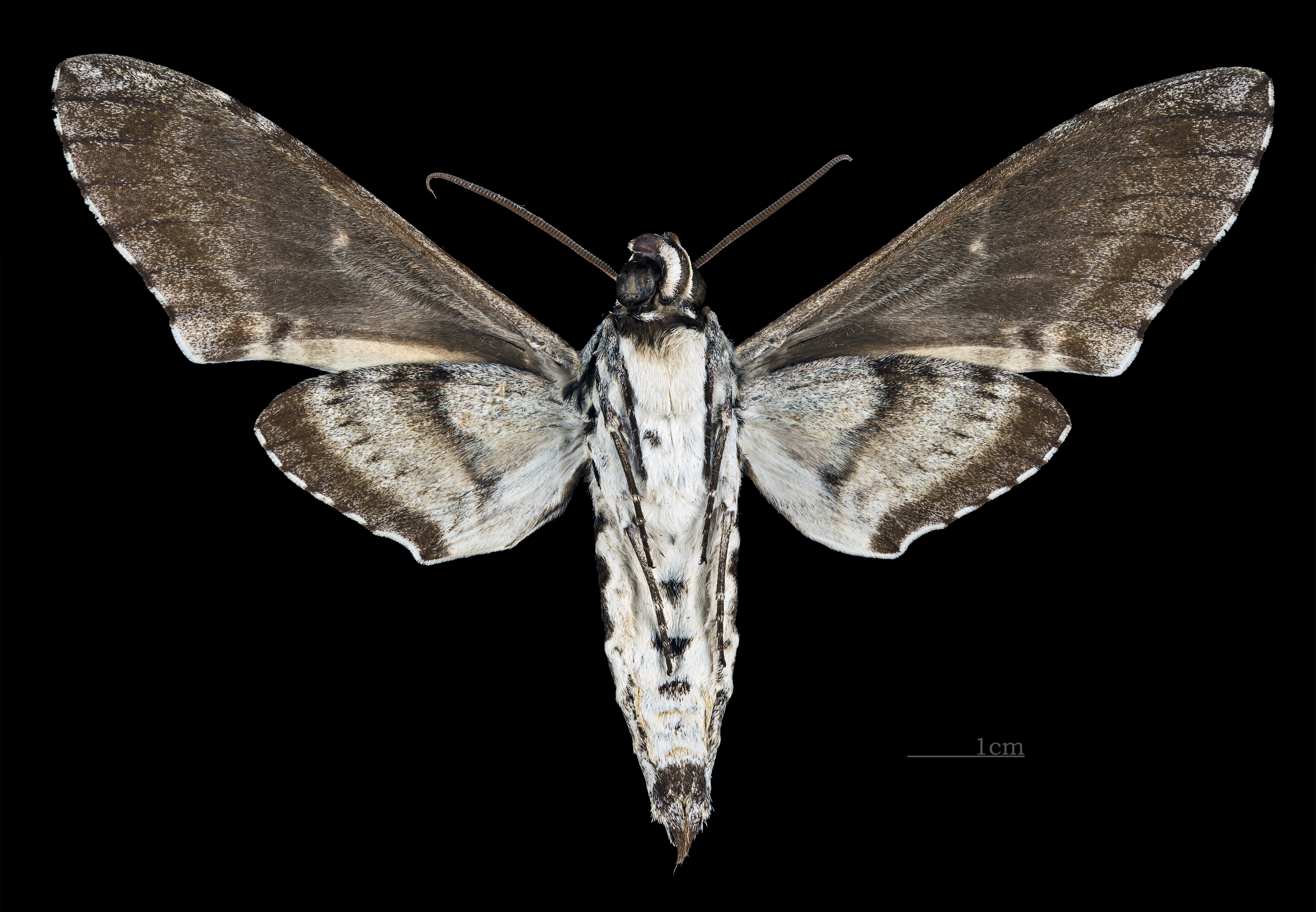 Manduca vestalis - △ Ventral side Collection of the Mathematician Laurent Schwartz